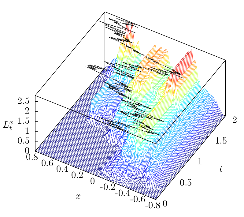 A sample path of an Itō process together with its surface of local times. The example used is an Ornstein-Uhlenbeck process satisfying the stochastic differential equation dX = dB - 5X dt.